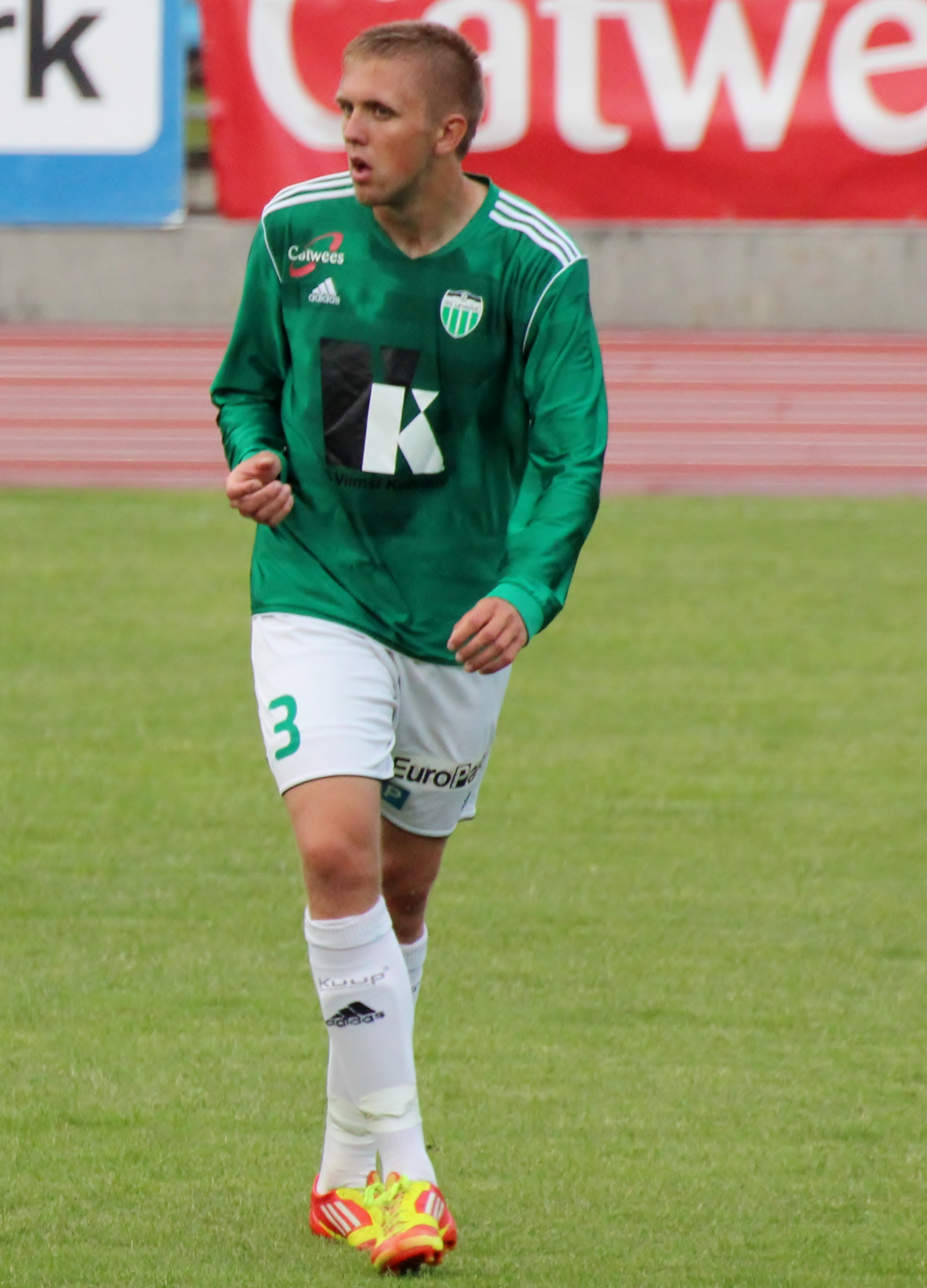 Artjom Artjunin playing football against Nõmme Kalju for Levadia